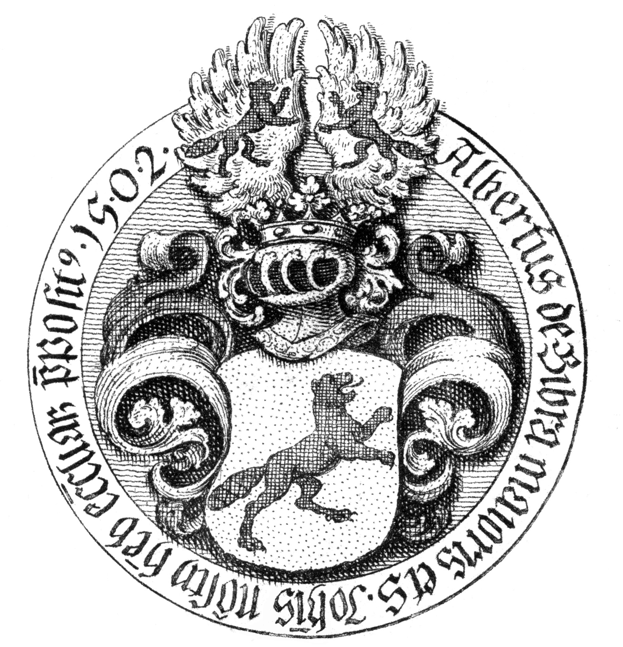 Johann Octavian Salver (1732 - 1778), Proben des hohen Teütschen Reichs Adels oder Sammlungen alter Denkmäler, Grabsteine, Wappen, Inn-und Urschriften, u. d. Nach ihren wahren Urbilde aufgenommen, unter offener Treüe bewähret, und durch Ahnenbäume auch sonstige Nachricten erkläret und erläutert (Würzburg, 1775) Coat of Arms of Albrecht von Bibra, head of the cathedral chapter in Wuerzburg